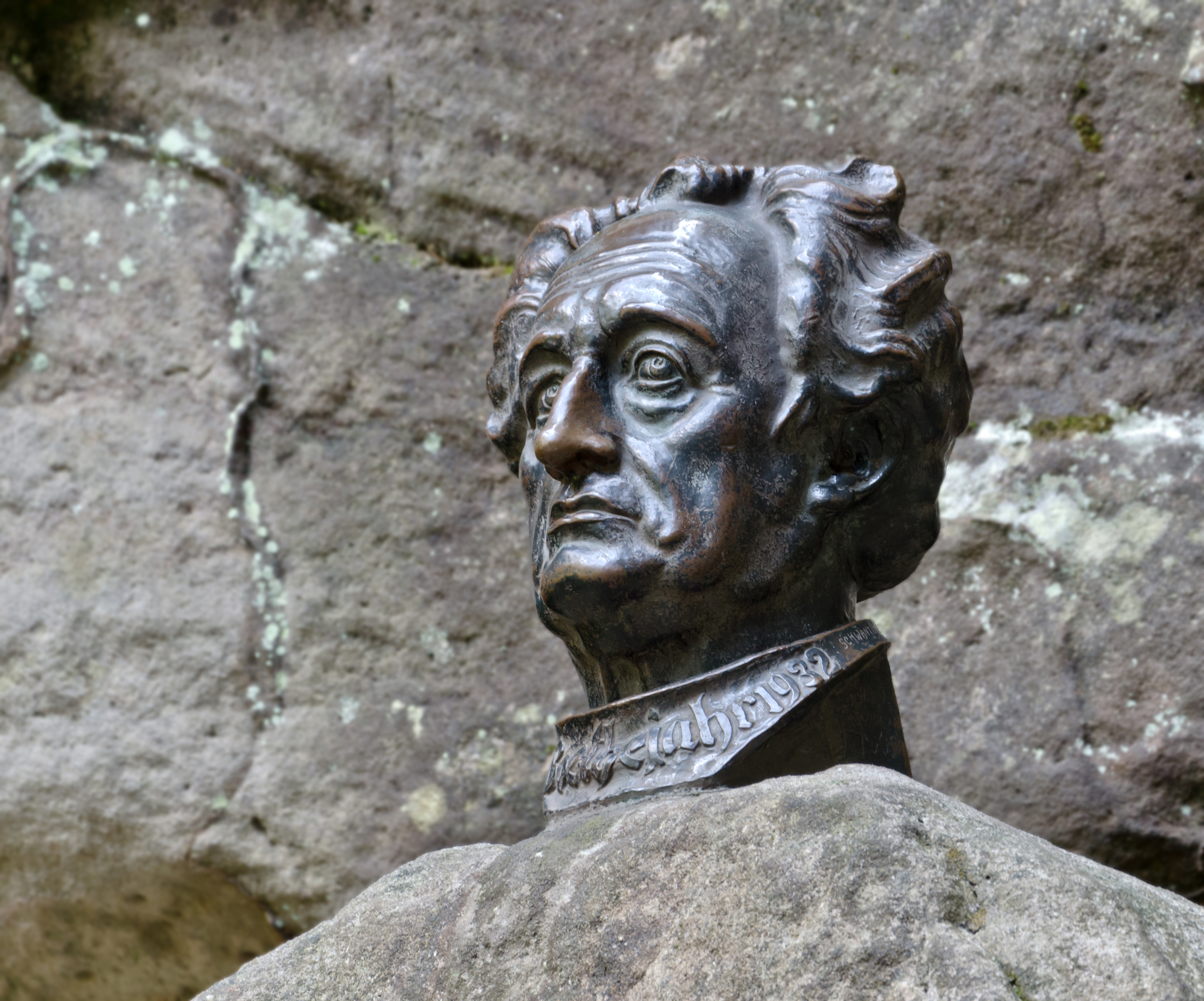 Adršpach-Teplice Rocks, bust of Johann Wolfgang von Goethe